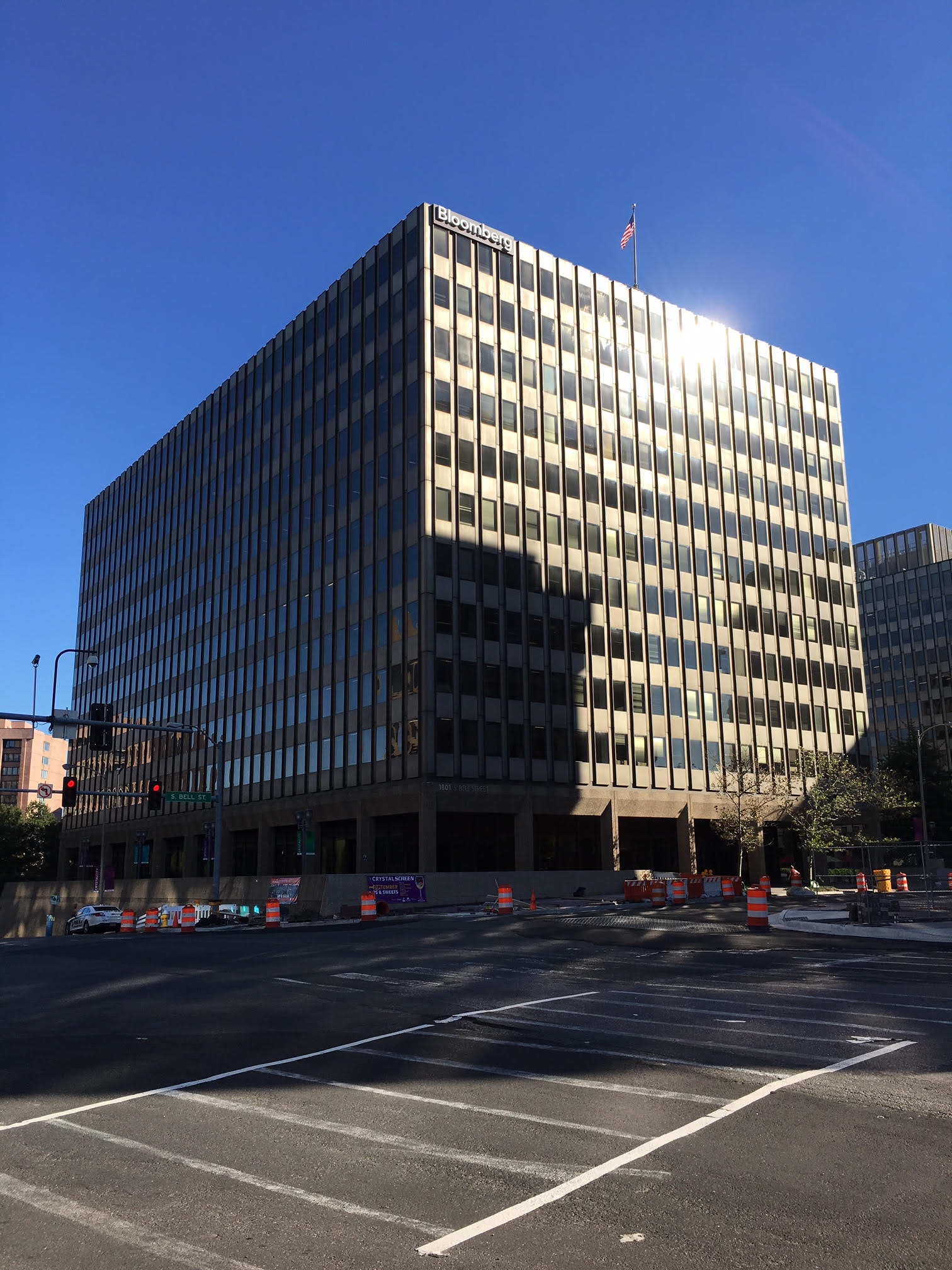 Bloomberg BNA building, 1801 South Bell Street.